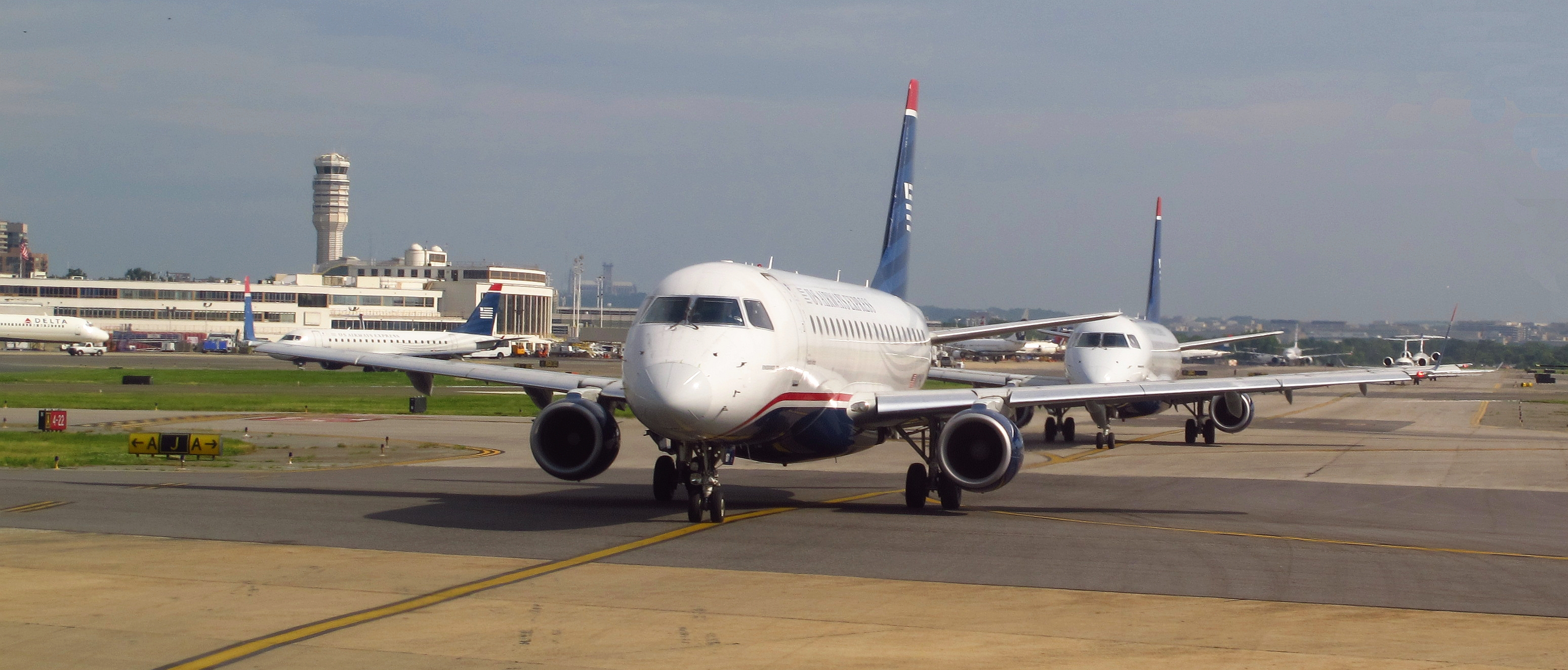 Planes line up for takeoff at Ronald Reagan Washington National Airport.